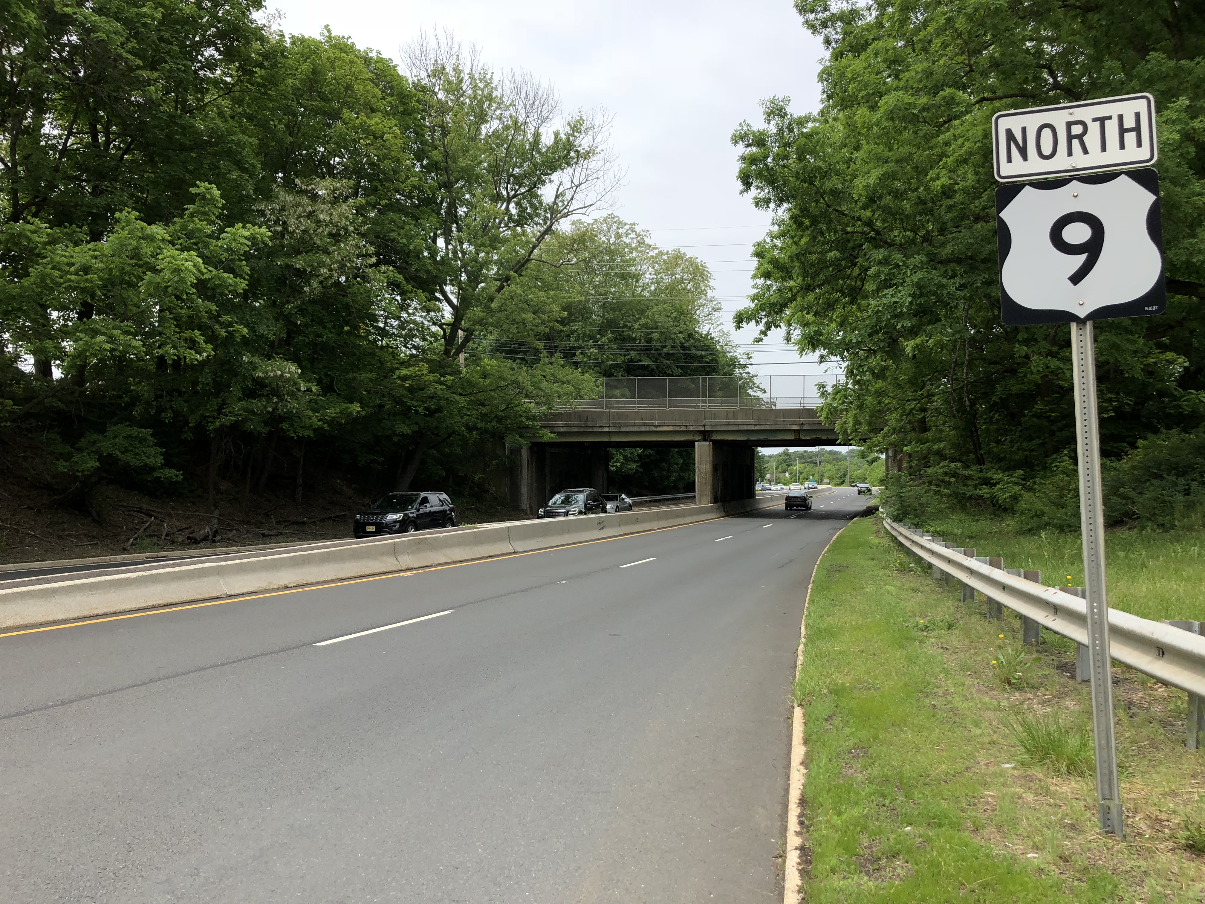 View north along U.S. Route 9 just south of Middlesex County Route 537 (Main Street) in Freehold Borough, Monmouth County, New Jersey